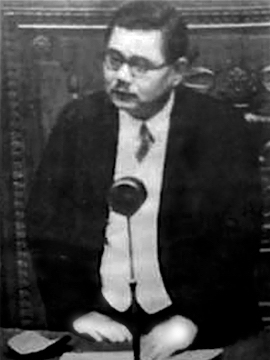 Finance Minister Okinori Kaya giving his responses to questions in the House main chamber.